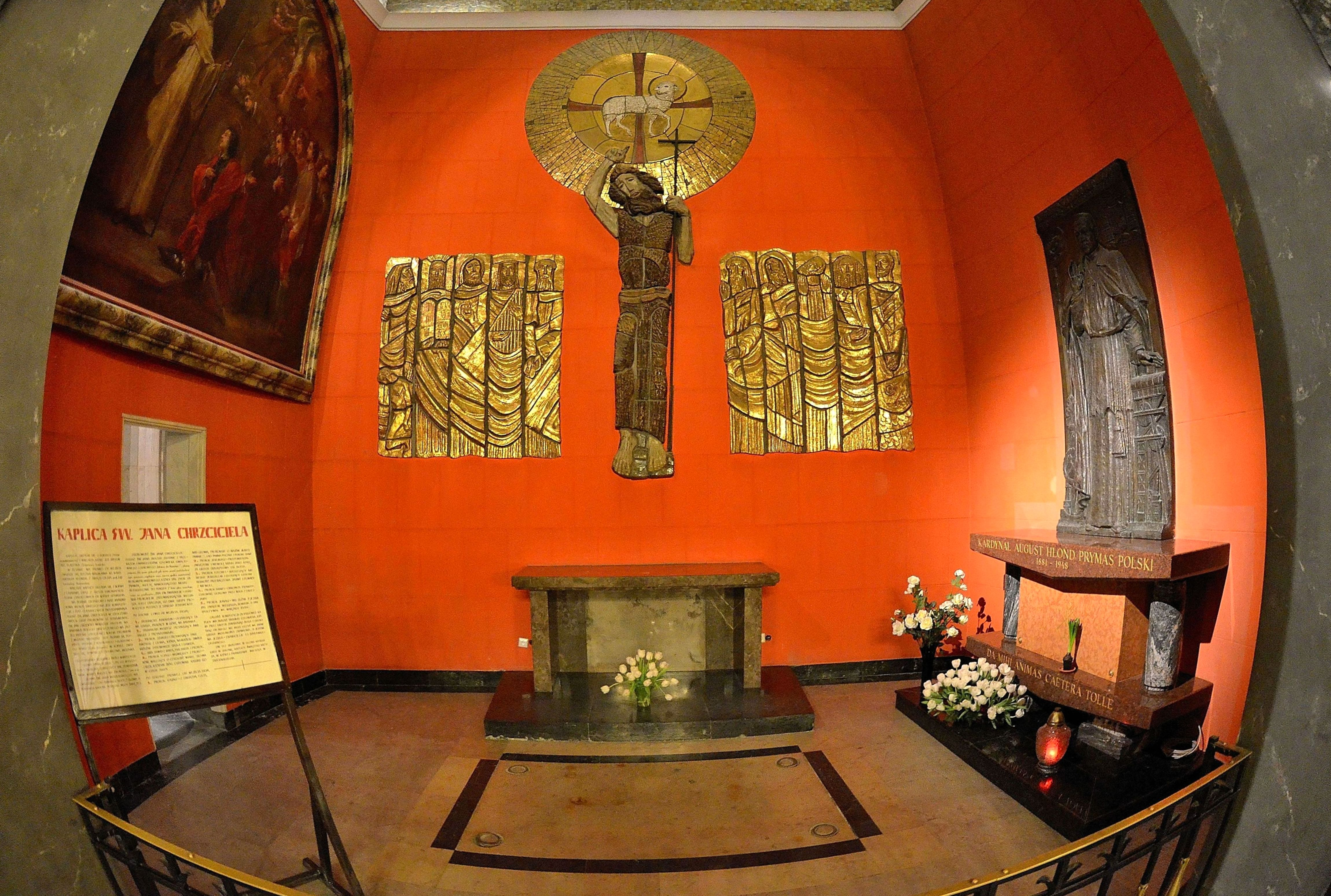 Chapel of St. John the Baptist in the St. John's Cathedral in Warsaw